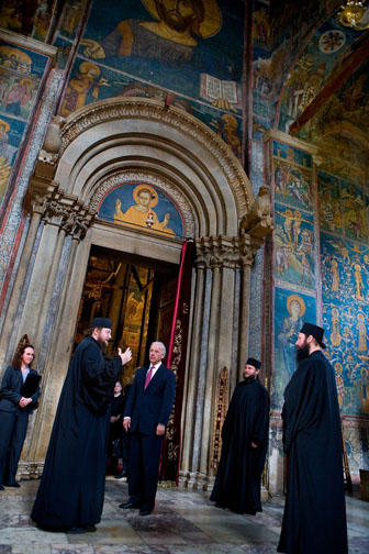 US Vice President Joe Biden is led on a tour of the Decani Monastery by Serbian Orthodox Monk Father Sava (left), in Decani, Kosovo, Thursday, May 21, 2009.